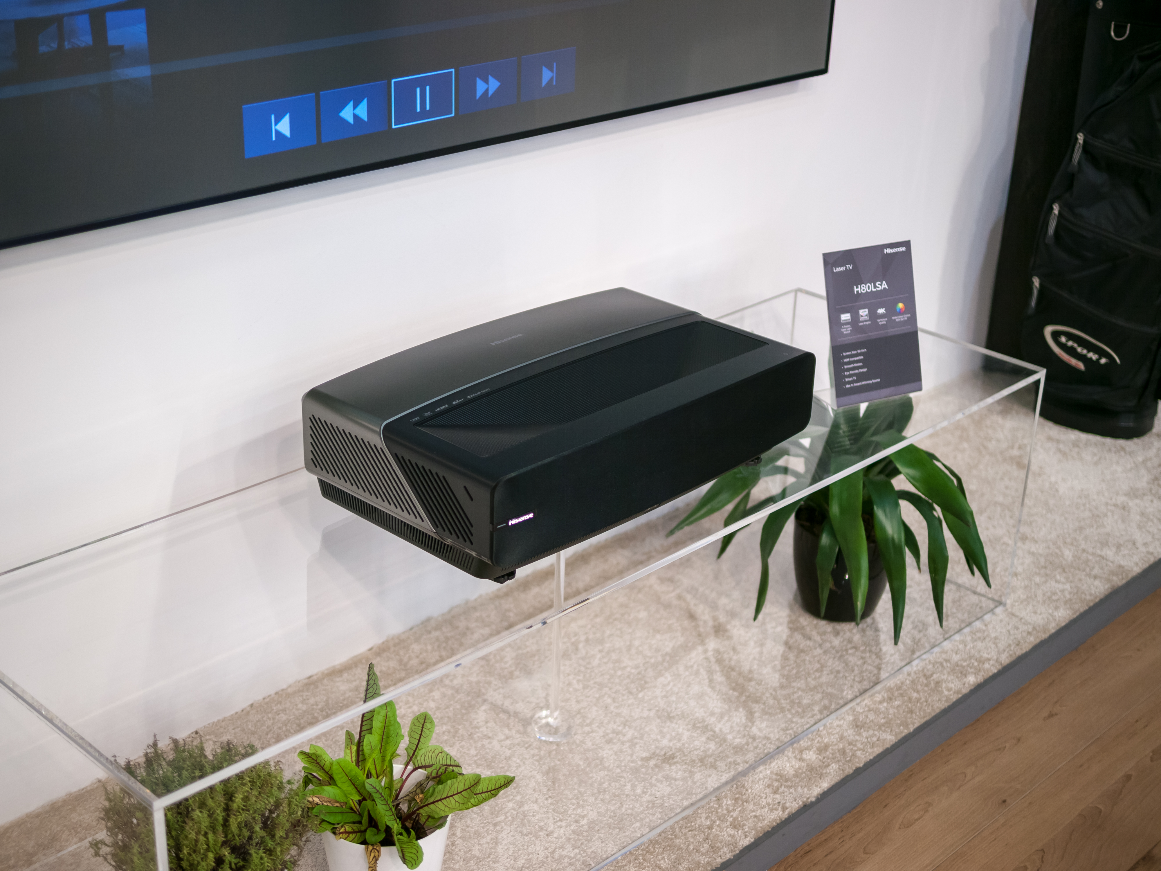 Hisense Laser projector at Internationale Funkausstellung 2018, Berlin